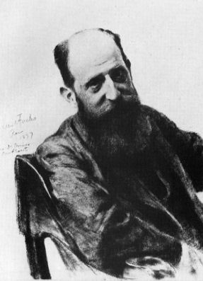 Josef Breuer 1897 (55 years old). Published in his Curriculum vitae. Reproduction from the image archive of the Austrian National Library (NB 508.831).